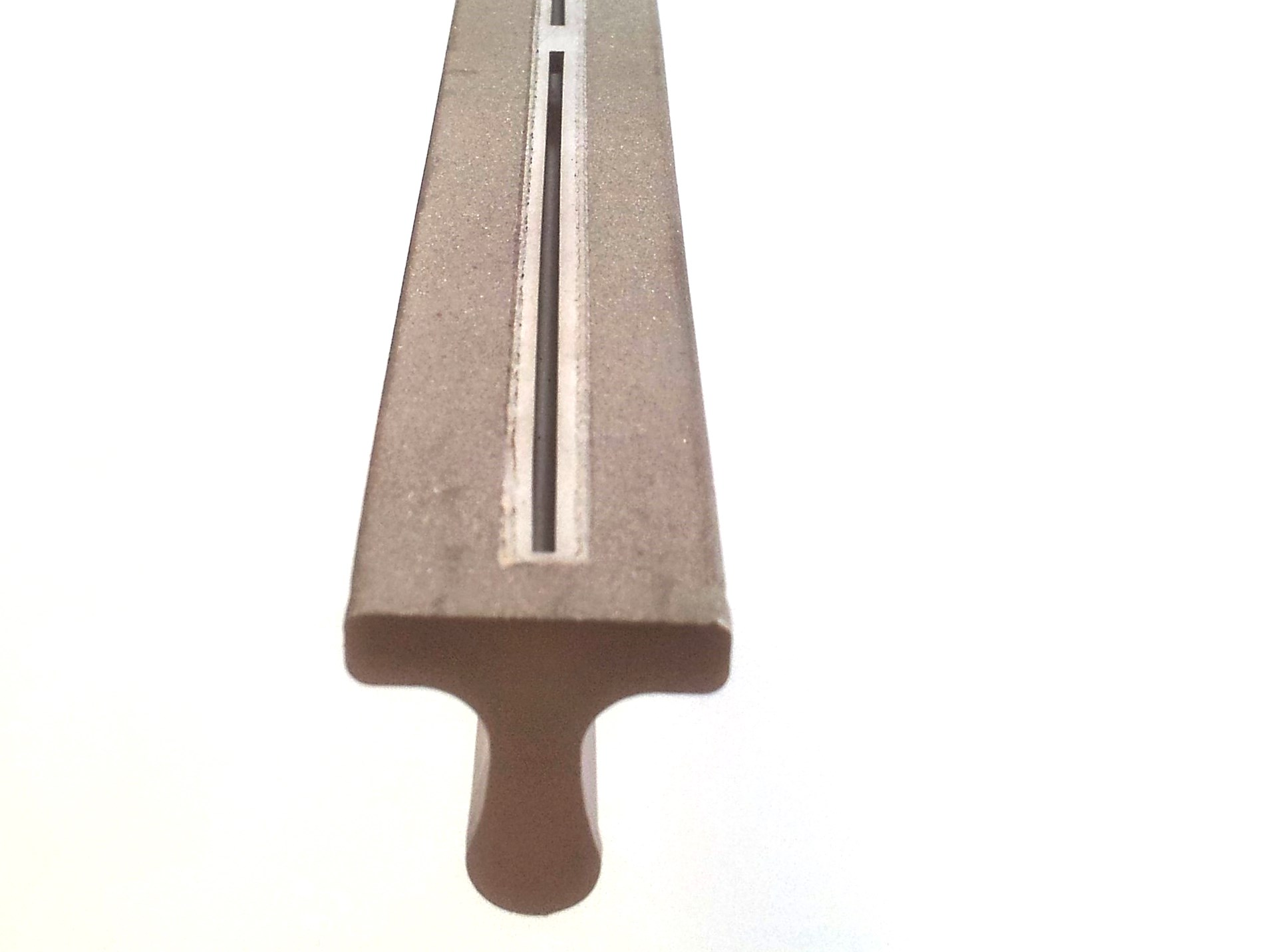 Rosemount annubar flow element, upstream edge is uppermost.